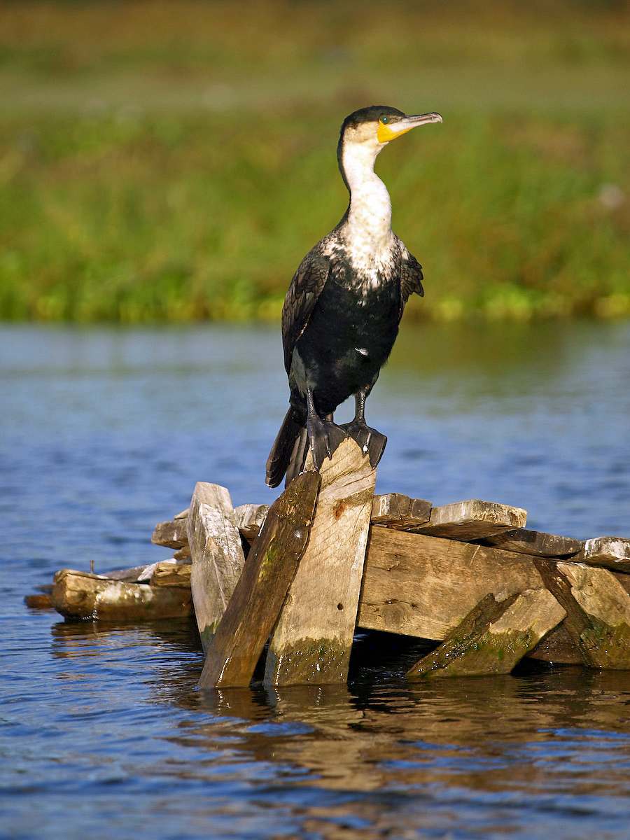 White-breasted Cormorant Phalacrocorax lucidus at Lake Naivasha, Kenya